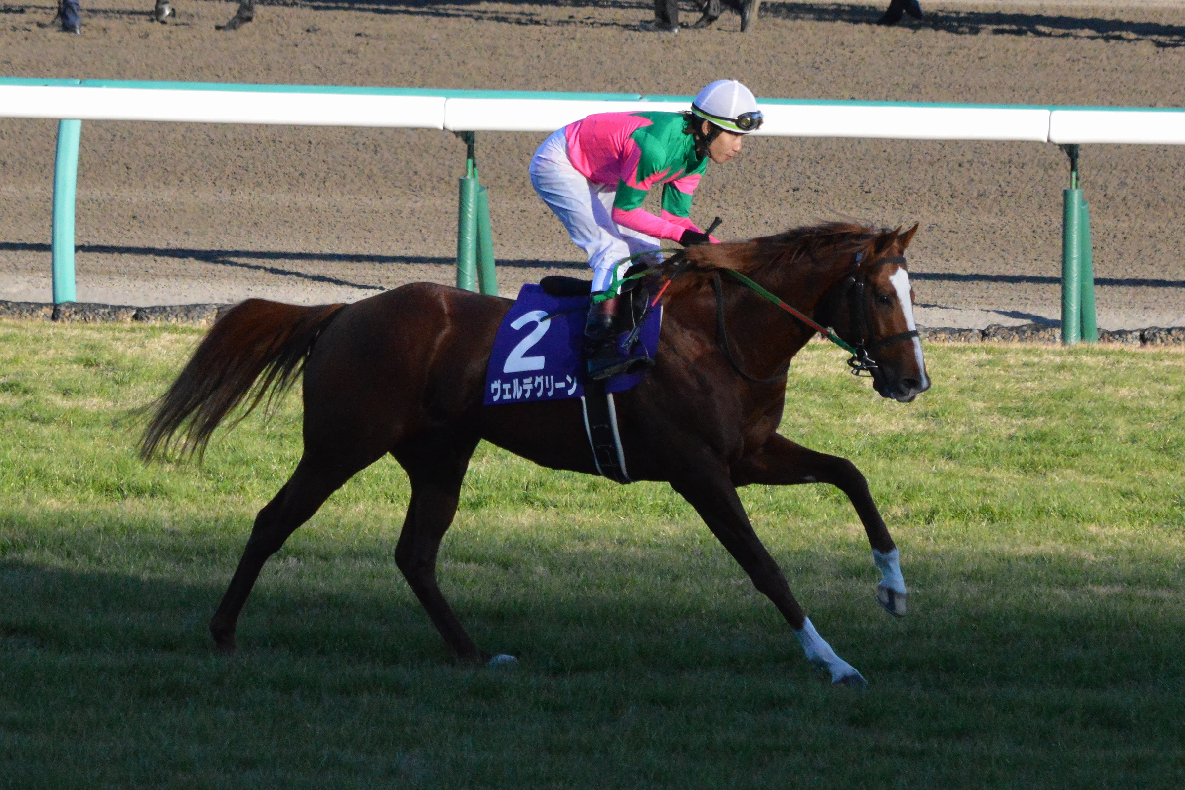 Japanese race horse Verde Green at Nakayama racecourse. Nakayama (JPN) 22 Dec 2013 Arima Kinen (The Grand Prix) (Grade 1) (3yo+) (Turf) 1m41/2f Firm RankHorse NameOddsAgeWgtTrainerJockey1stOrfevre (JPN)3/5FH59-0Yasutoshi IkeeKenichi Ikezoe2ndWin Variation (JPN)151/10H59-0Masahiro MatsunagaYasunari Iwata3rdGold Ship (JPN)17/5C49-0Naosuke SugaiRyan Moore4th - 9th/omission10thVerde Green (JPN)36/1H59-0Ikuo AizawaHironobu Tanabe